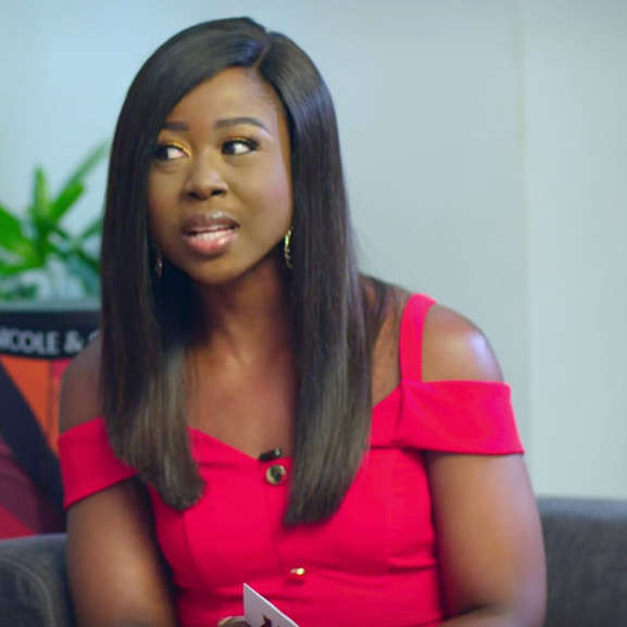 Segun & Ronke Abiona talk about their brand Nicole & Giovanni on Fashion Insider with Sika Osei on NdaniTV in April 2019